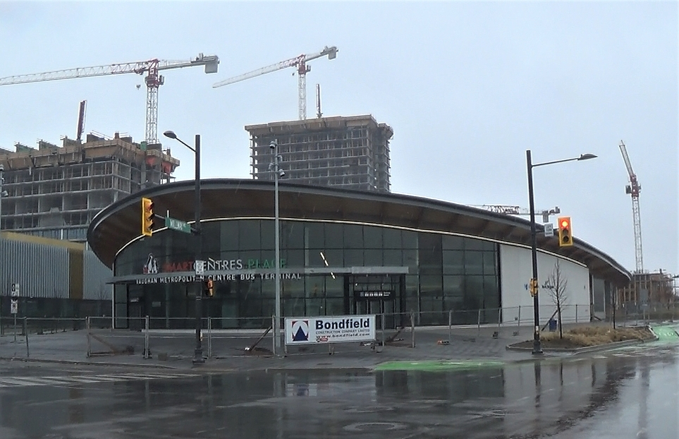 The Smart Centres Place Terminal at Vaughan Metropolitan Centre TTC subway station under construction in 2019